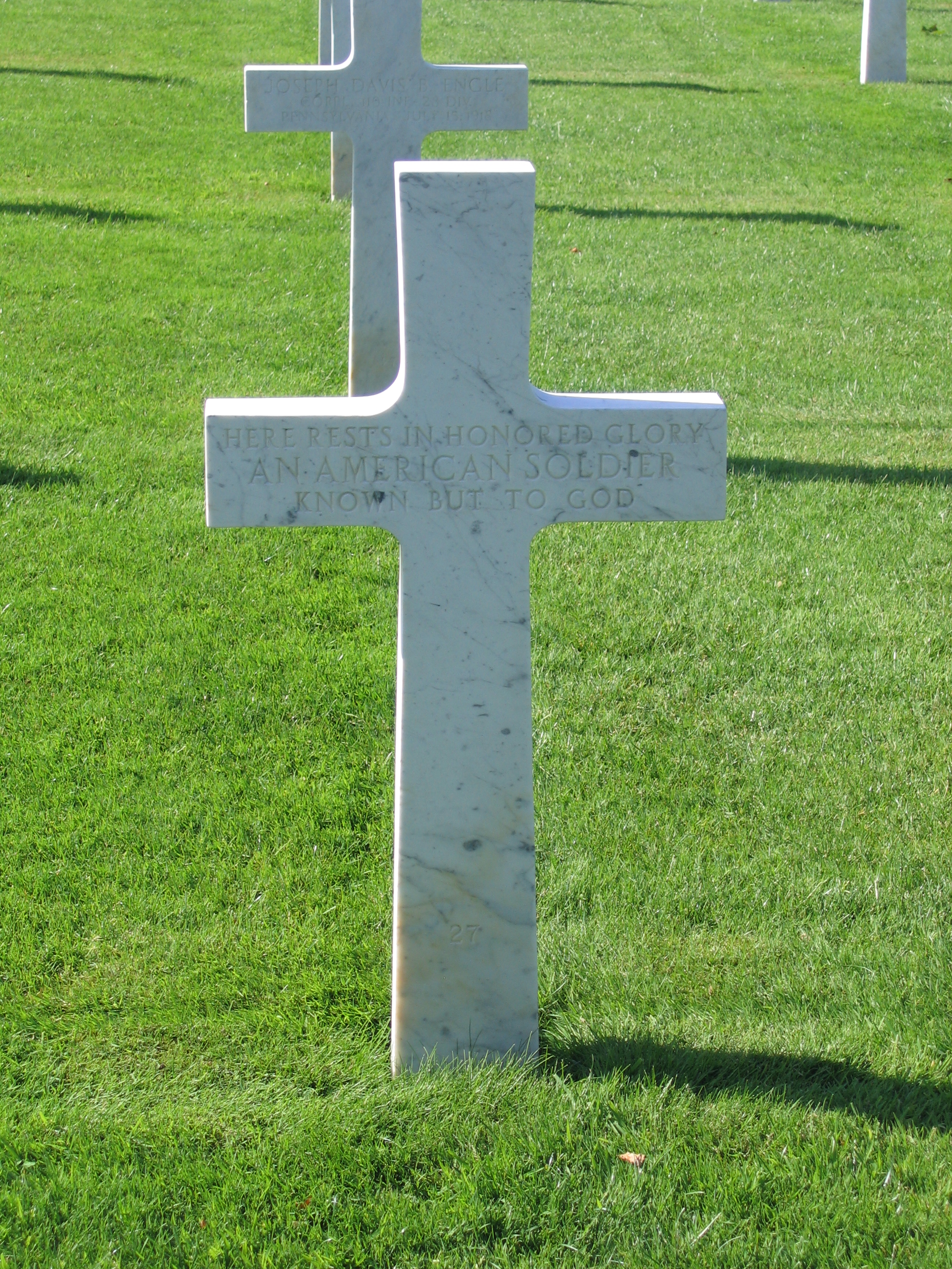 The tomb of an unknown american who died in 1917, during World War I, located in the Oise-Aisne American Cemetery in Seringes-et-Nesles, near Fère-en-Tardenois, France